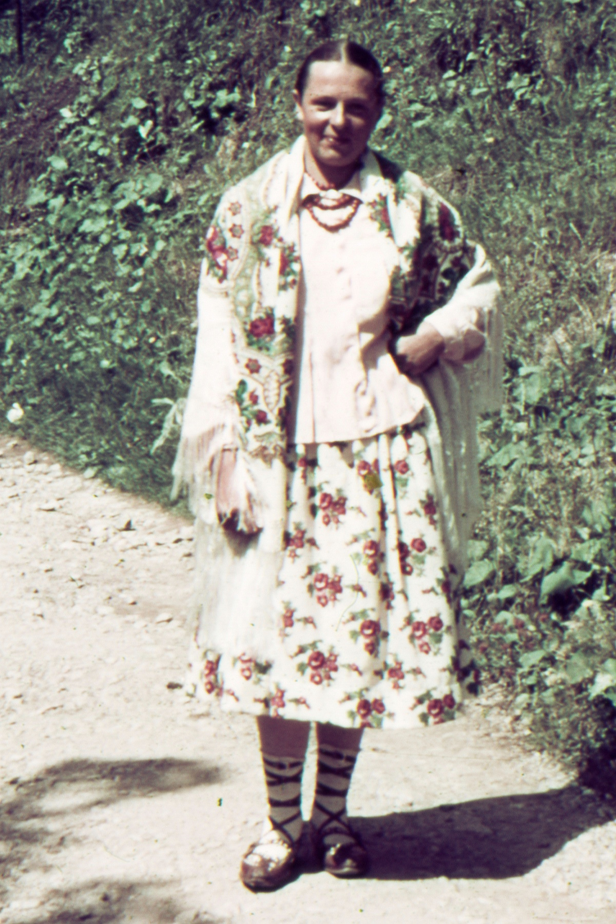 A woman from Zakopane, Poland, wearing traditional Goral women's dress from that region. This photo was not colorized.